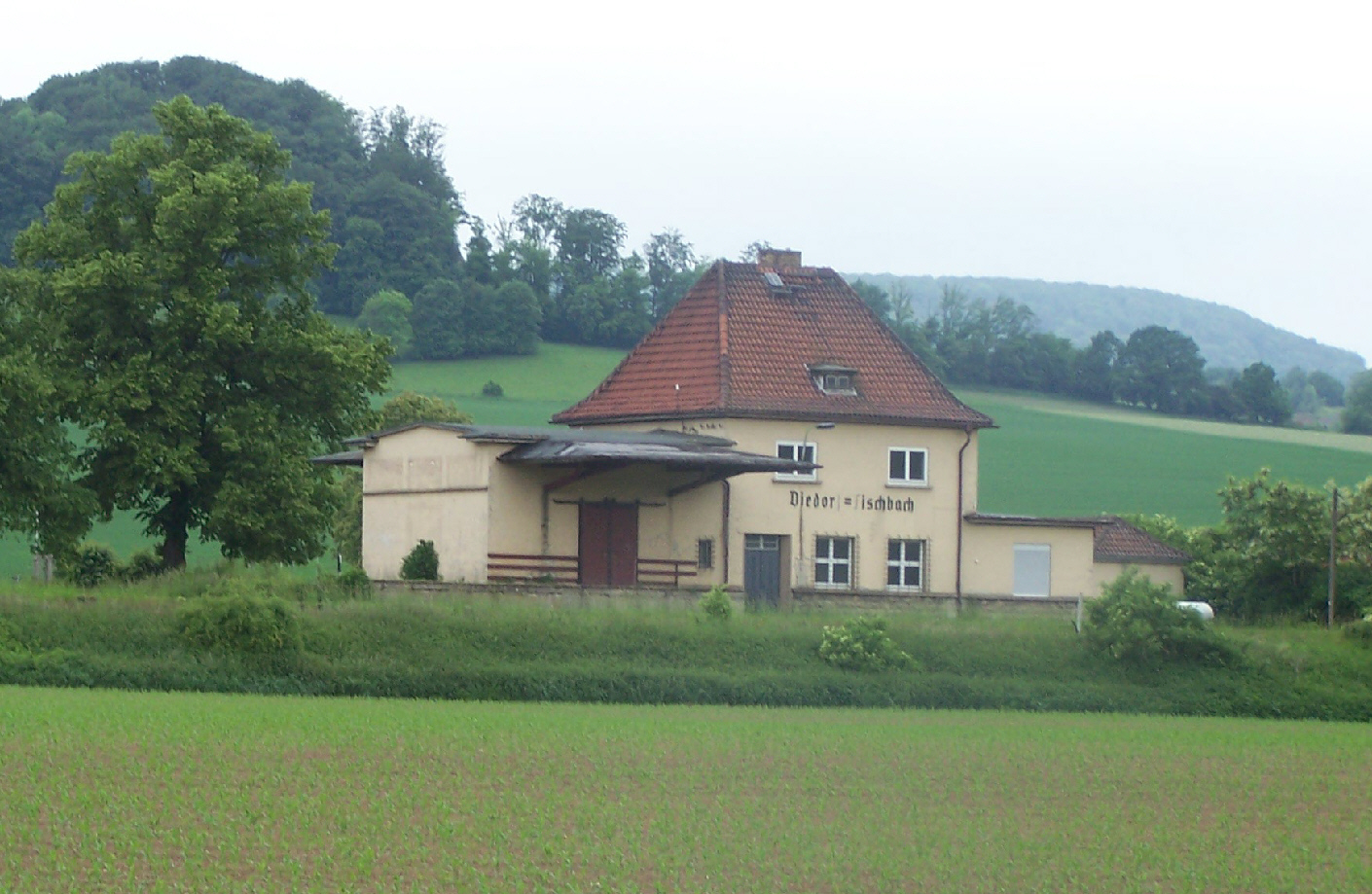 The former railroad station near Diedorf/Rhön.